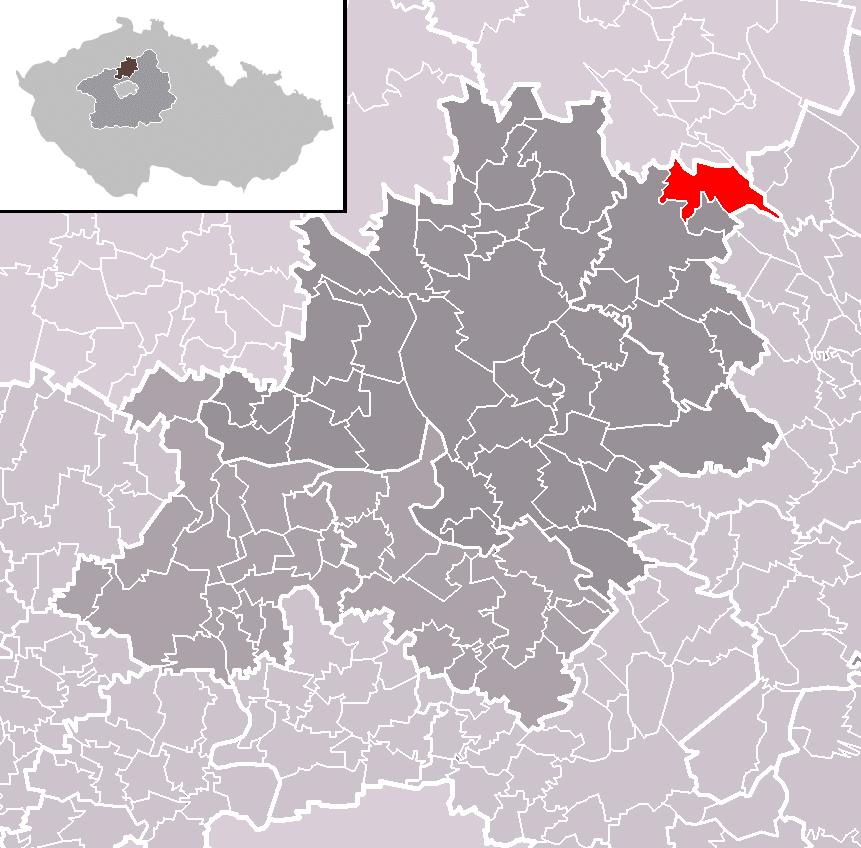 Location of Nosálov municipality within Mělník District and administrative area of Mělník as a Municipality with Extended Competence.